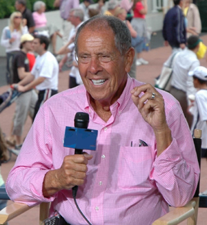 Nick Bollettieri at the 2006 US Open doing a television interview. Taken by his Media Coordinator, David Portnowitz. This should appear on the Nick Bollettieri Wikipedia page.